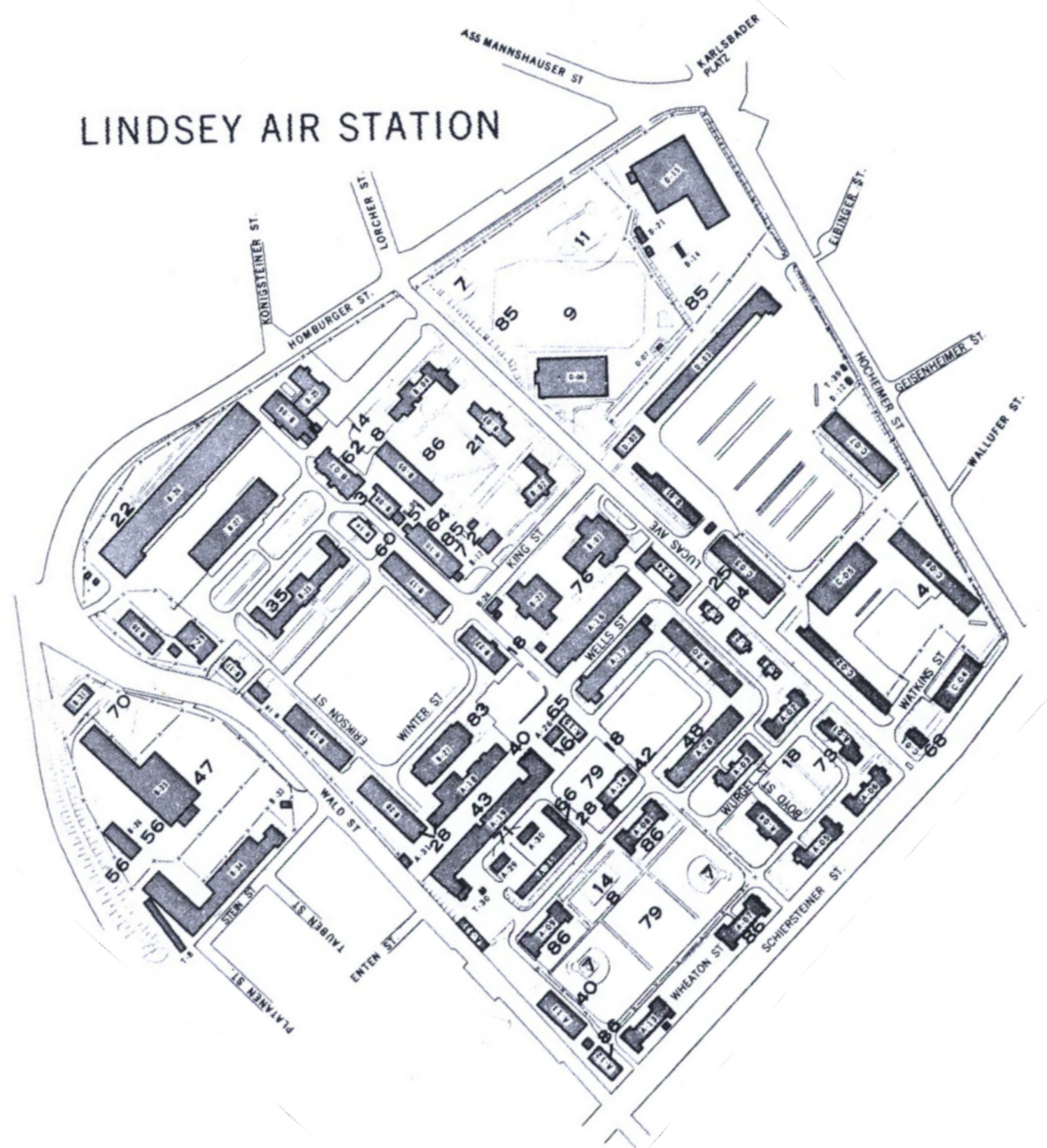 Map of the Lindsey Air Station in Wiesbaden, Germany Europaviertel (Wiesbaden), Europaviertel (Wiesbaden)